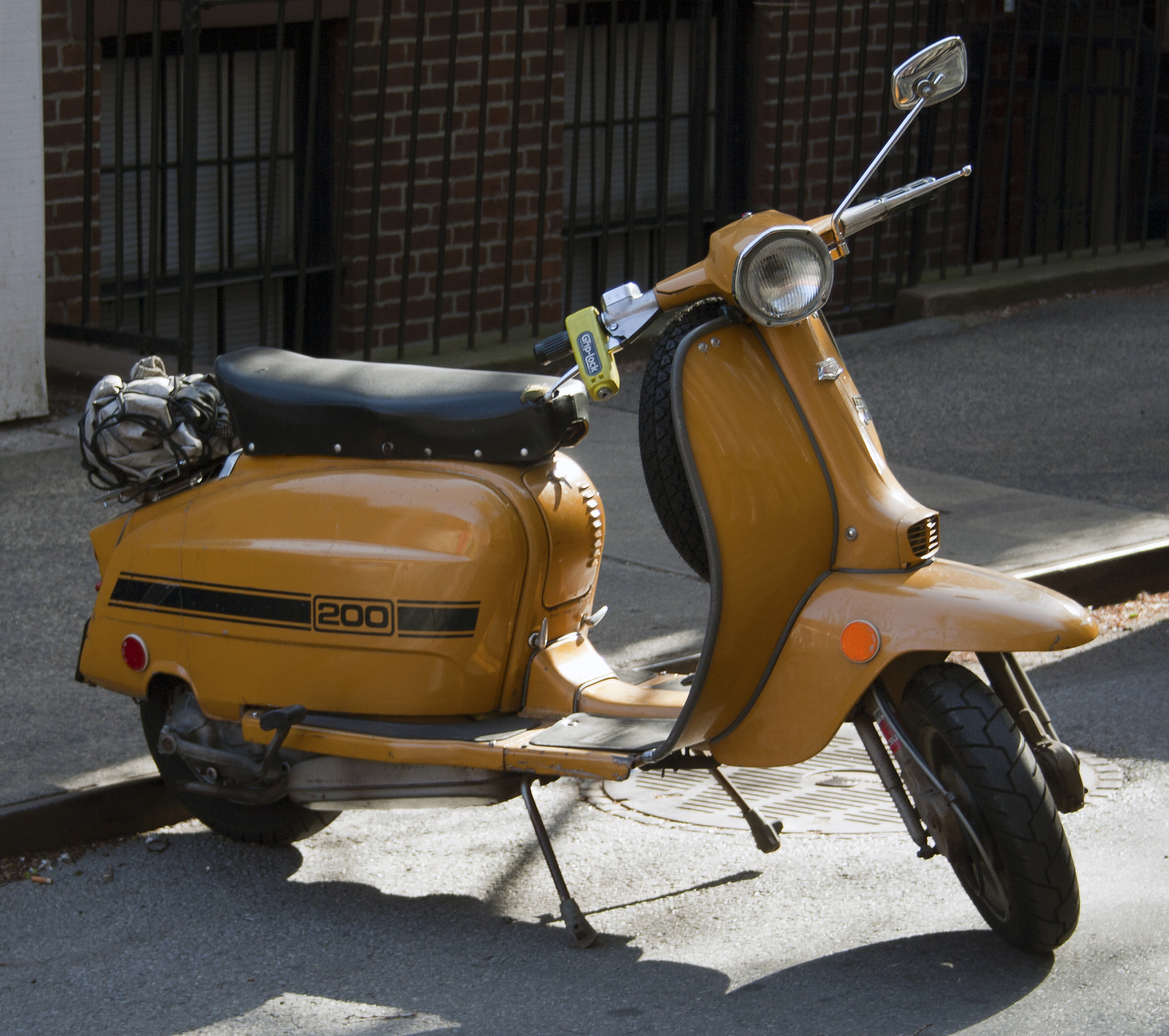 Seventies' Lambretta Serveta Jet 200, a Spanish built version of the Italian classic.